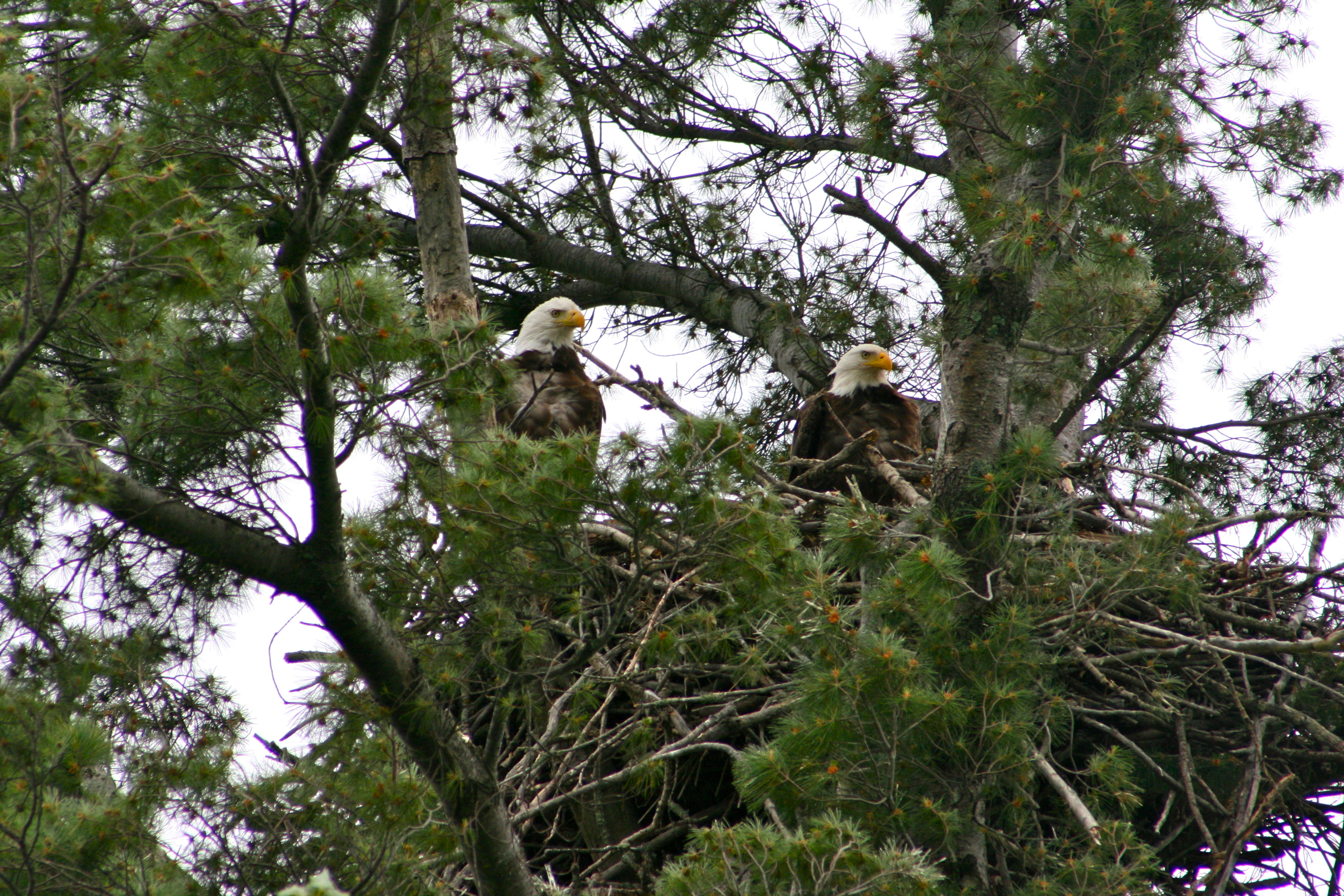 Two mature Bald Eagles watching over their nest in Chippewa National Forest, on the shores of Leech Lake